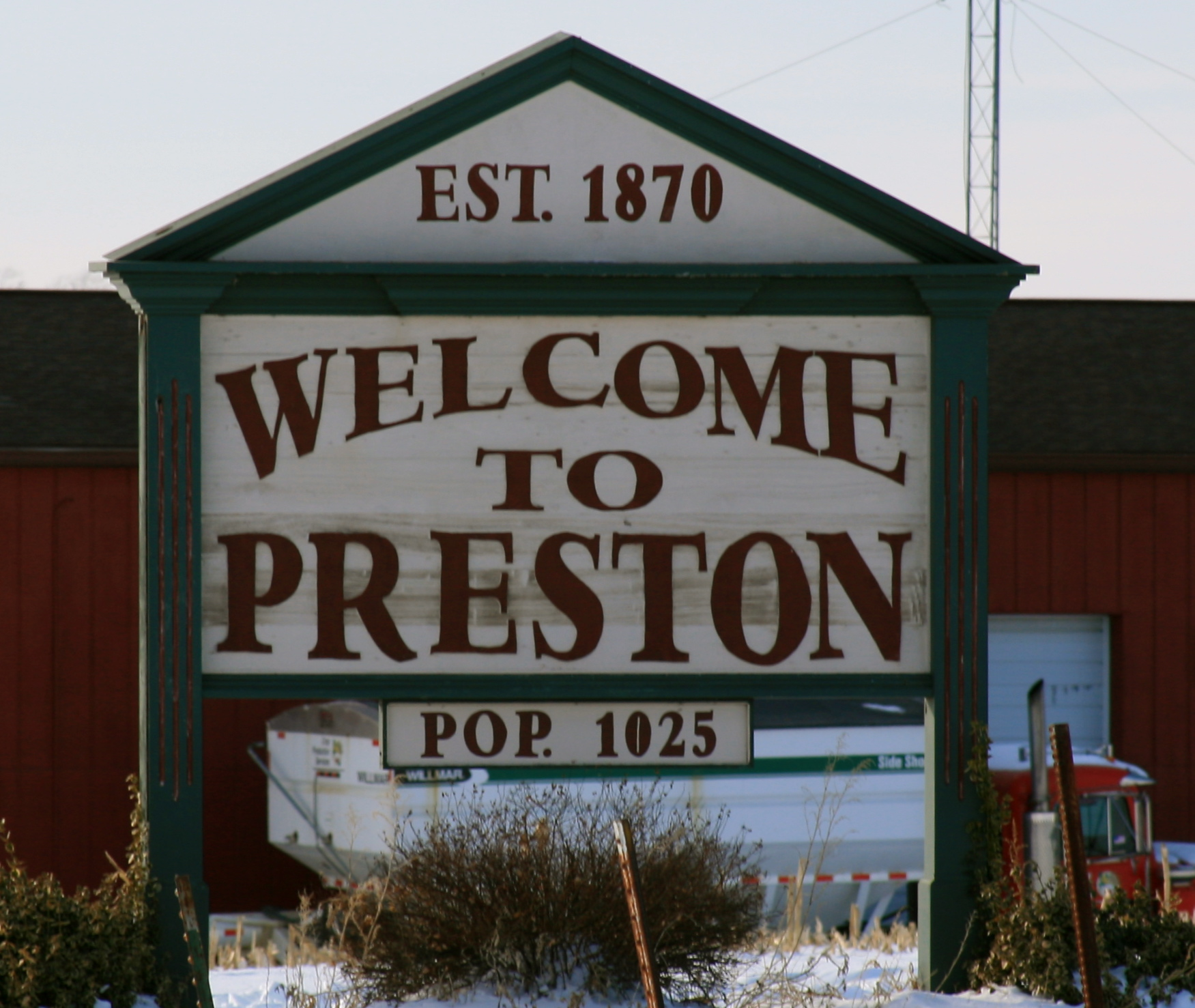 Welcome sign outside Preston, Iowa